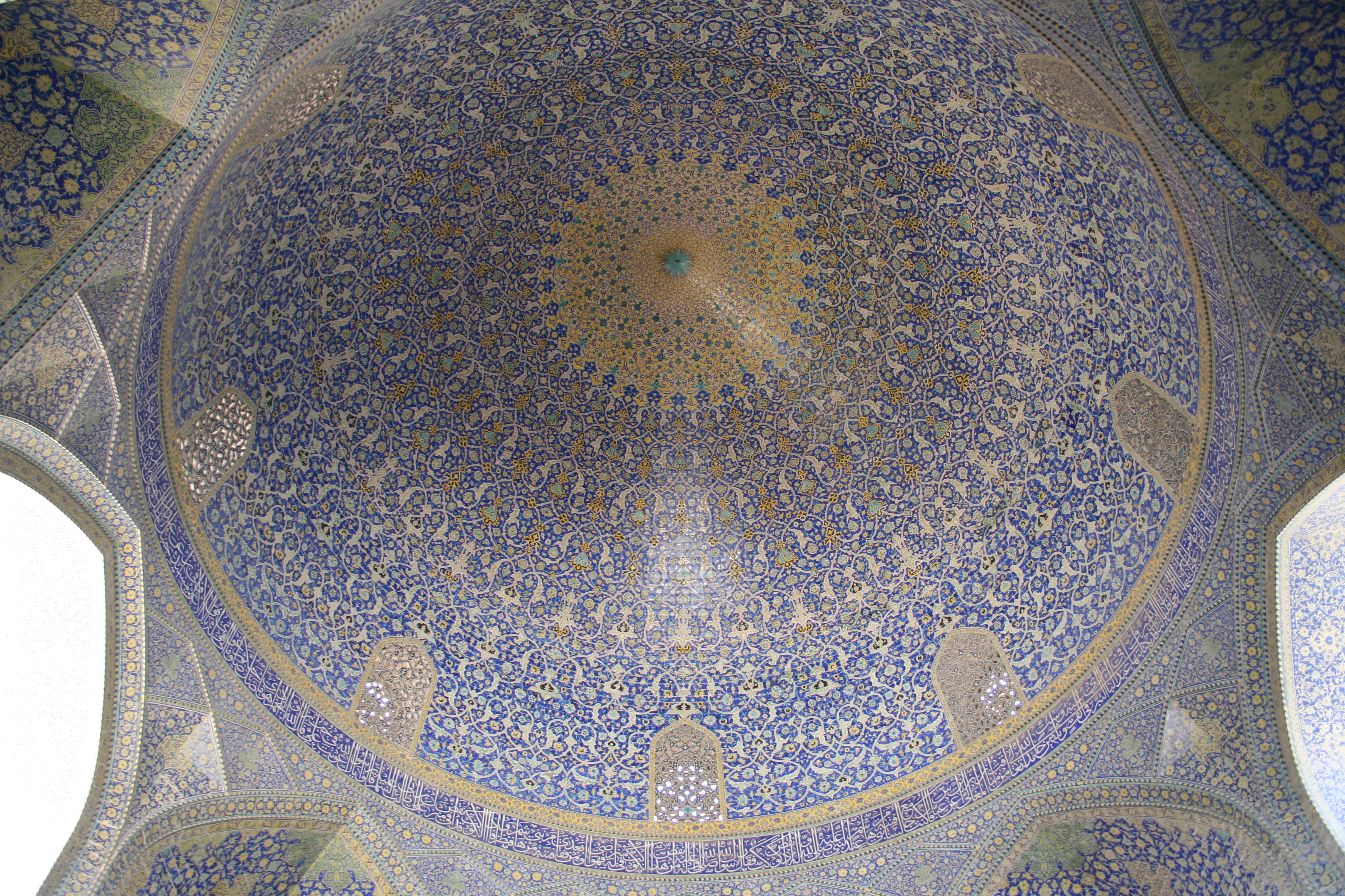 Royal Mosque (Imam Mosque), southern cupola — Isfahan.